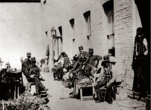 Kitchen workers of San Quentin Prison.